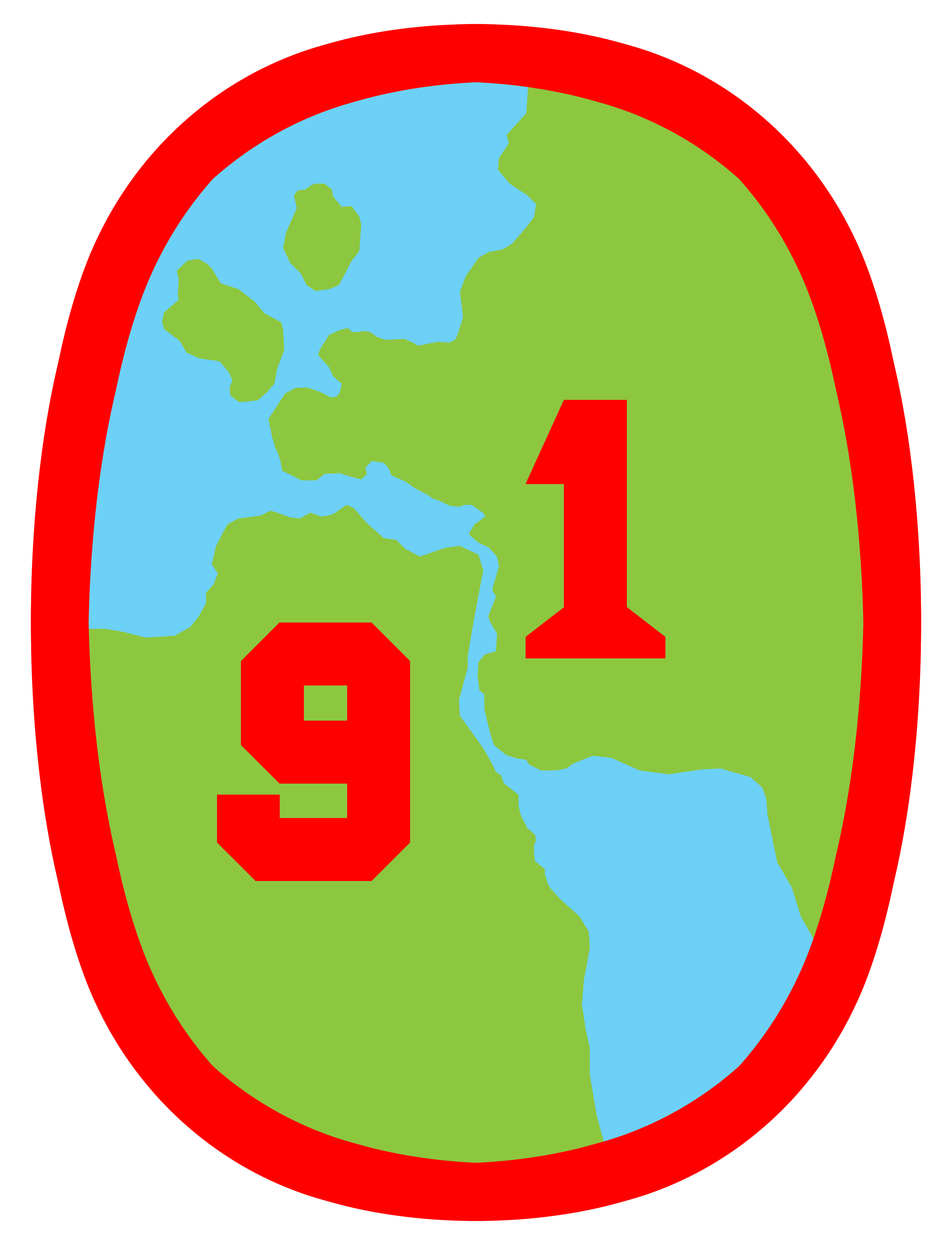 91st Philippine Division emblem from 1941-42, possibly not developed until late in that period or just after; color versions of this are a matter of record, and bronze version(s) of these emblems are seen on monuments around the Philippines.